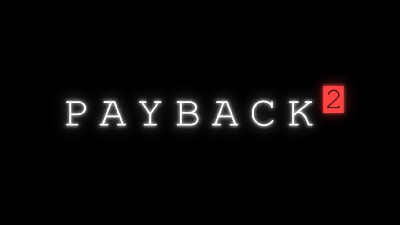 Payback 2 Logo in game